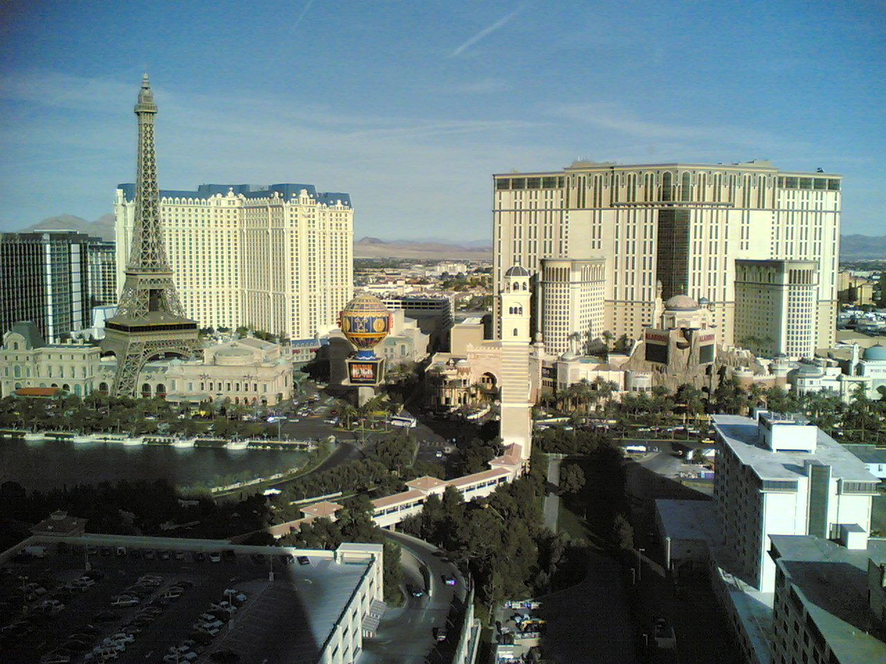 Eastern view from 26th floor of the Spa Tower at the Bellagio in Las Vegas, Nevada. In view is the Paris Las Vegas (on left) and the Aladdin Hotel and Casino (now Planet Hollywood Resort and Casino).26th Floor of the new Spa Tower at Bellagio